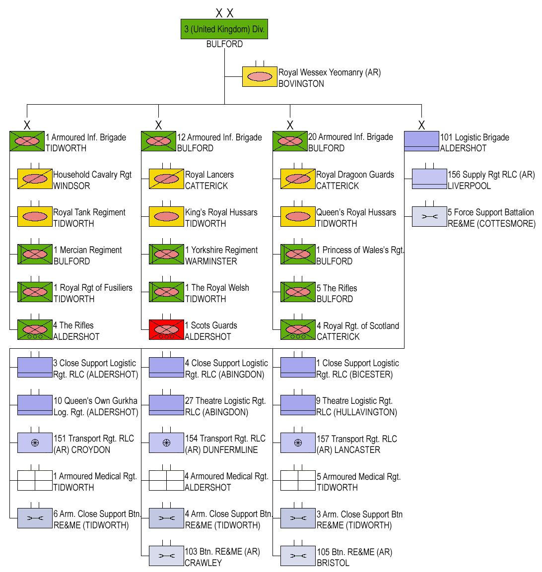 United Kingdom Army 3rd Mechanized Division Structure